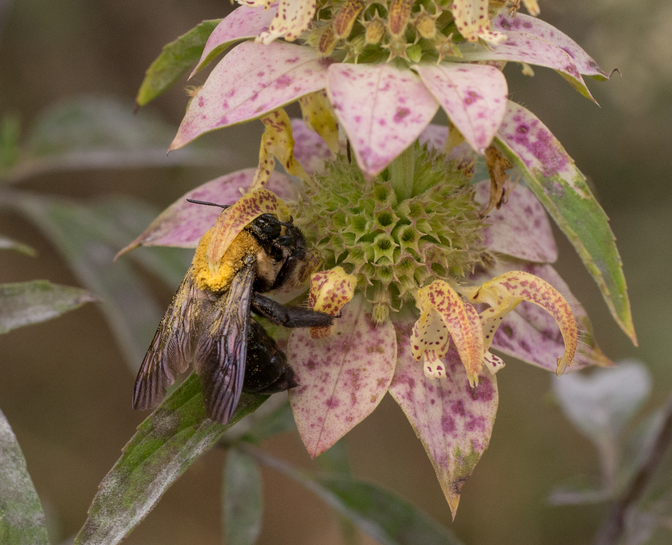 Eastern carpenter bee (Xylocopa virginica) on spotted bee balm (Monarda punctata) in Brooklyn Botanic Garden.